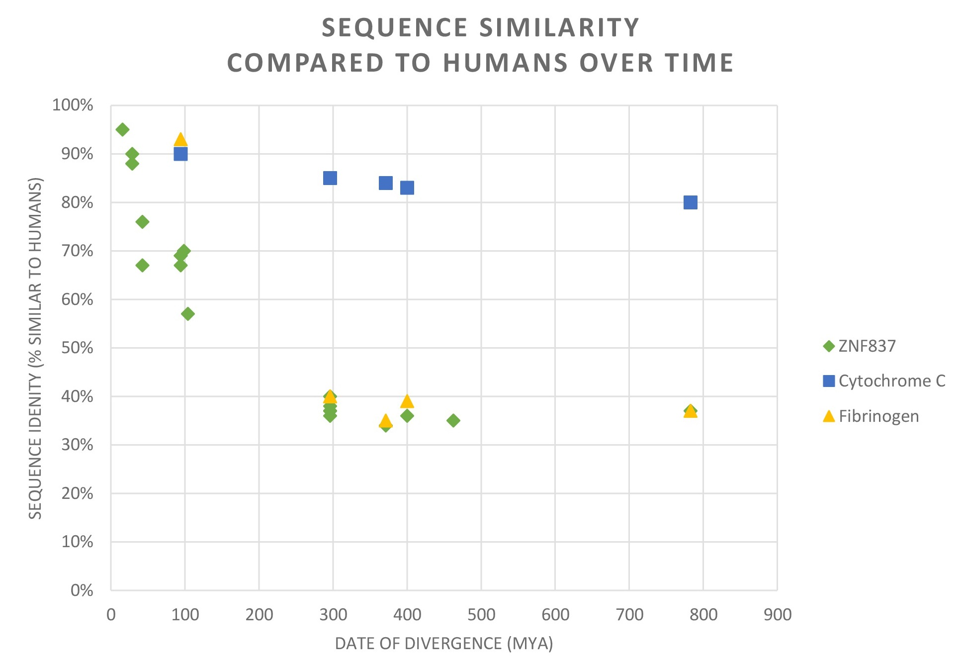 The ZNF837 homologs similarity to the ZNF837 human protein graphed vs the date of divergence from the human species